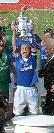 Everton Ladies captain Jody Handley with the FA Women's Cup, City Ground Nottingham, May 2010